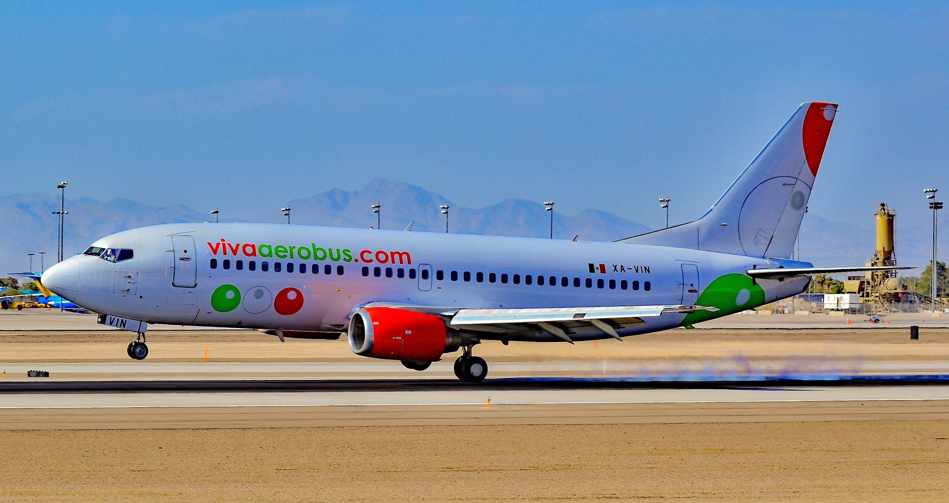 Former LN-KKZ of Norwegian Air Shuttle. - Las Vegas - McCarran International (LAS / KLAS) USA - Nevada, May 25, 2012 Photo: Tomás Del Coro